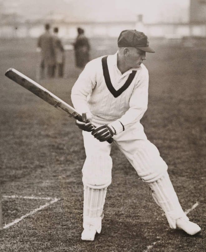 Stan McCabe practising his batting during the Australian cricket tour of England, 28th April 1930.